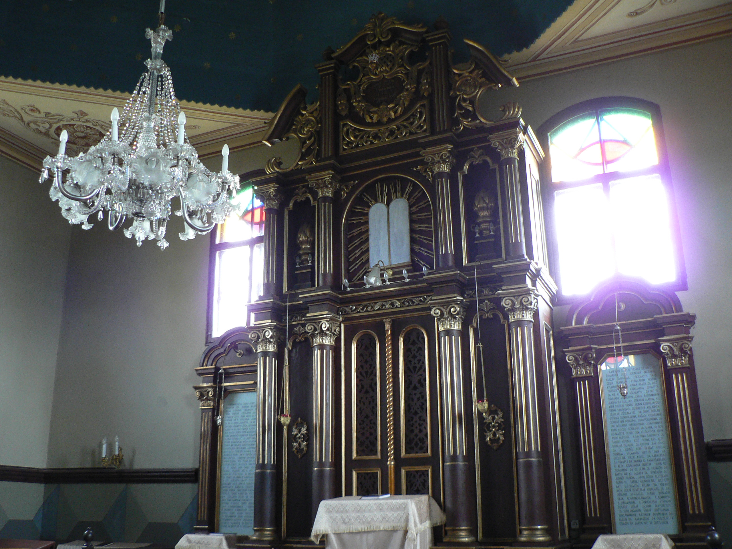 The altar of Karaite Kenesa of Trakai, Lithuania.